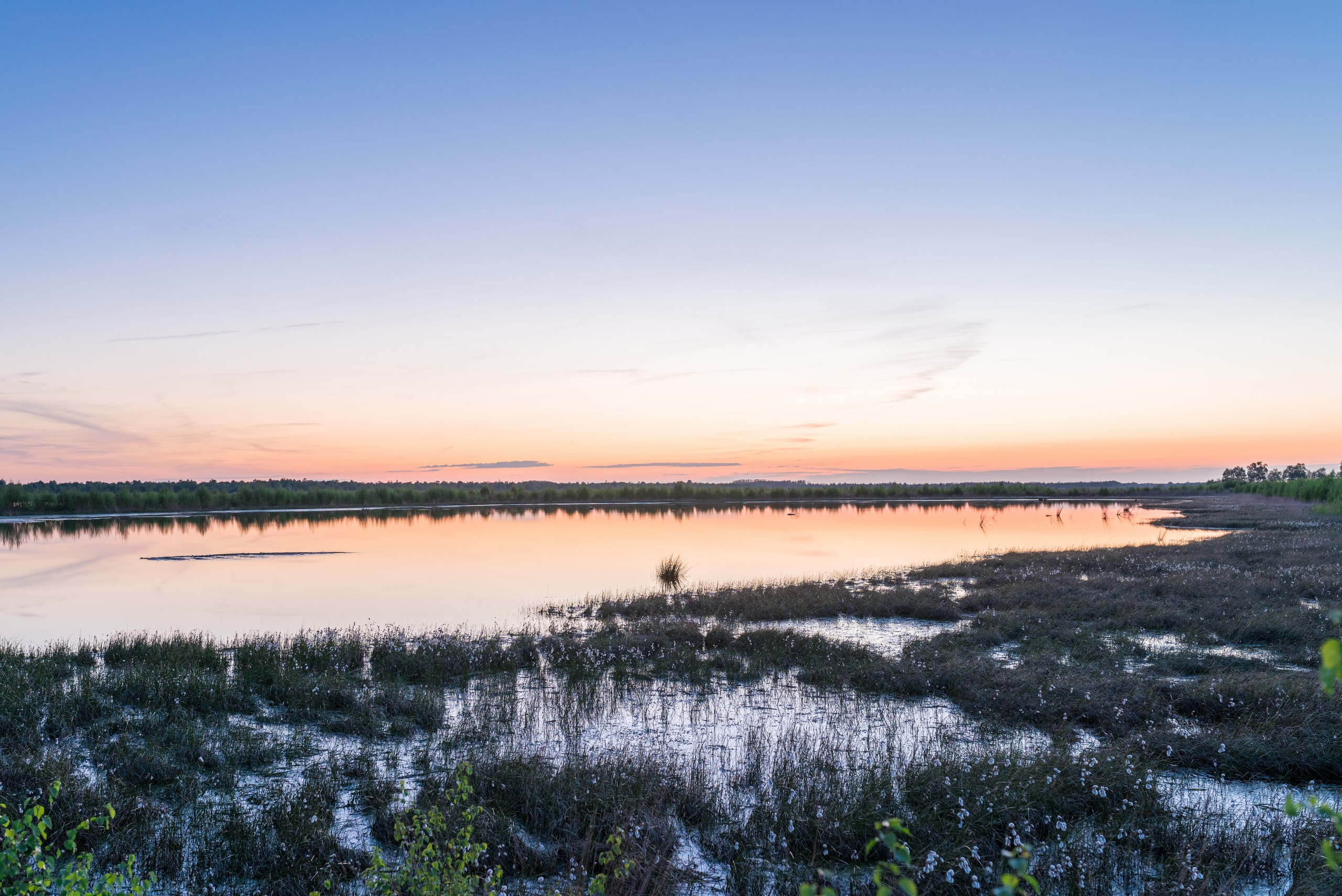 Das Foto wurde um ca. 22.30 Uhr von östlicher Seite des Naturschutzgebiets Vehnemoor aufgenommen. Das Naturschutzgebiet mit dem Kennzeichen NSG WE 270 hat eine Fläche von 1676 ha. Es liegt im Süden der Gemeinde Edewecht (Landkreis Ammerland) und im Norden der Gemeinde Bösel (Landkreis Cloppenburg).